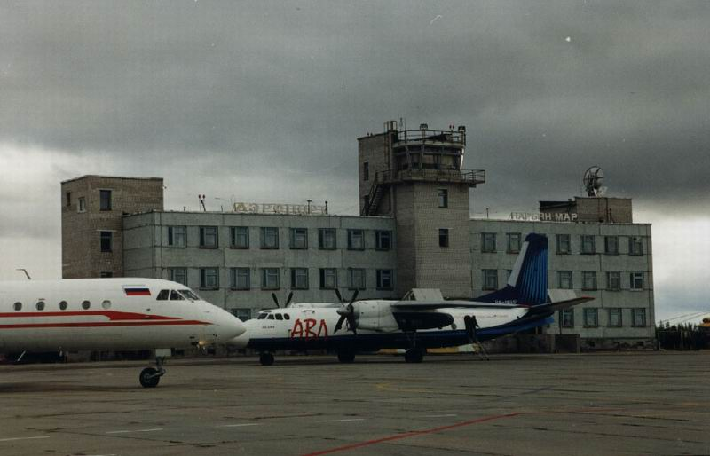 Naryan-Mar airport